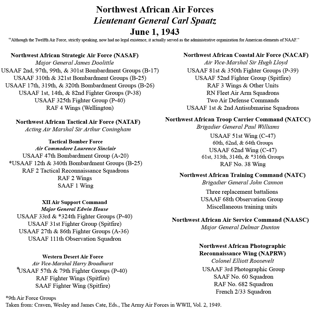 The figure shows the organization and commanders of the Northwest African Air Forces (NAAF) in June 1943 when the Allied forces prepared for the invasion of Sicily, Operation Husky, which took place in July. The three components of NAAF were the Northwest African Strategic Air Force (strategic medium and heavy bomber units), Northwest African Tactical Air Force (tactical fighter, fighter-bomber, and light & medium bomber units), and the Northwest African Coastal Air Force (rescue, anti-shipping, and naval support units). Although technically not part of NAAF, the Northwest African Troop Carrier Command, Northwest African Training Command, and Northwest African Photographic Reconnaissance Wing provided troop and equipment transport, training, and reconnaissance support, respectively, for the Allied forces in the North African and Mediterranean areas at this time. I created this file using the information provided in: Craven, Wesley and James Cate, Eds., The Army Air Forces in WWII, Vol. 2, 1949.